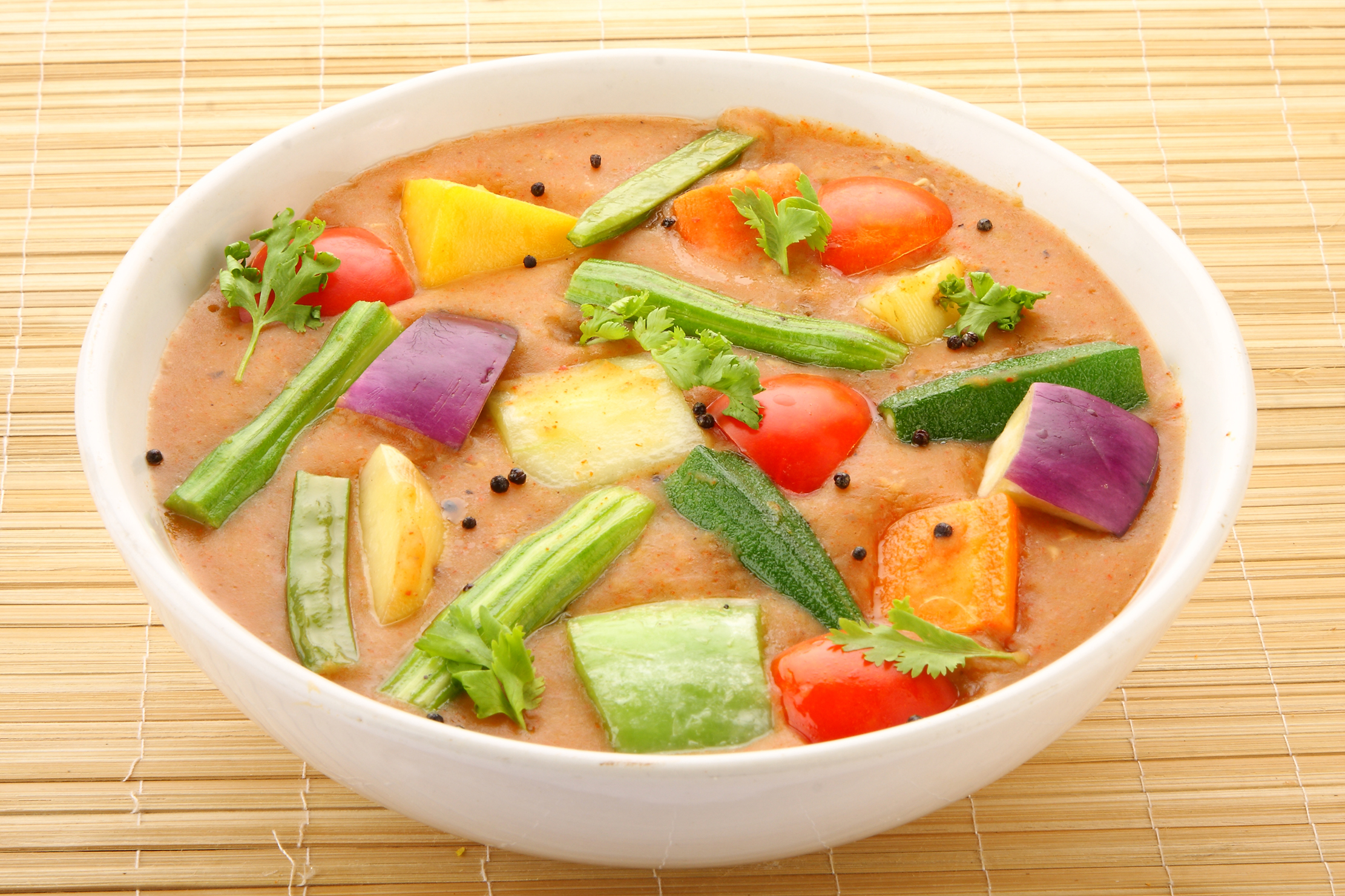 Sambar is a lentil based vegetable stew or chowder based on a broth made with tamarind popular in South India